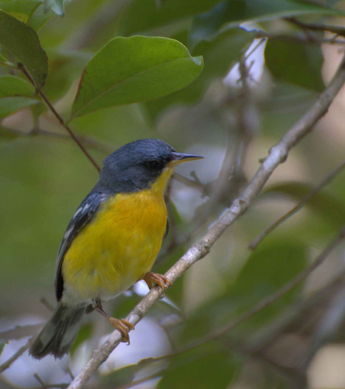 A Tropical Parula (Parula pitiayumi)